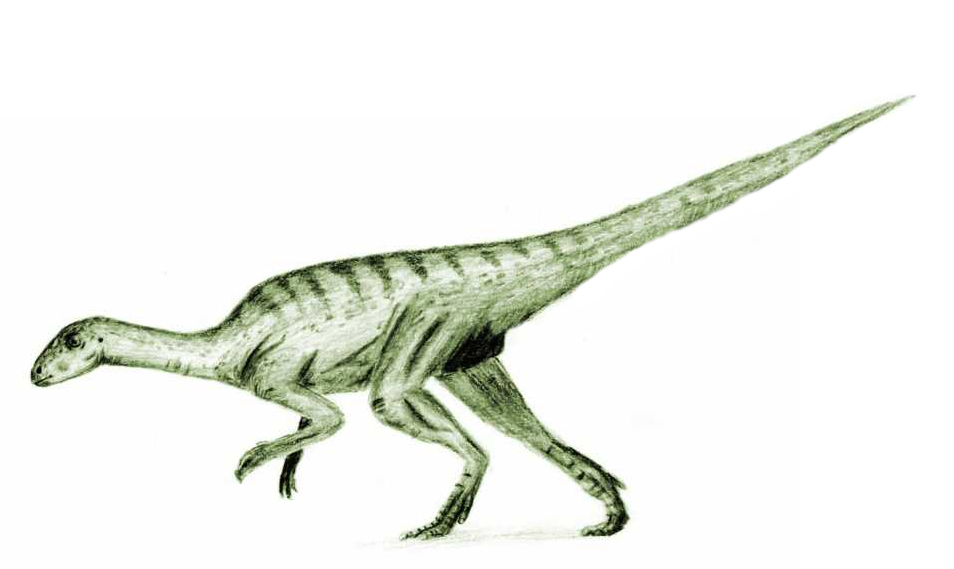 Agilisaurus, pencil drawing, version 2, based on the skeleton pictured at [1] Author:User:ArthurWeasley